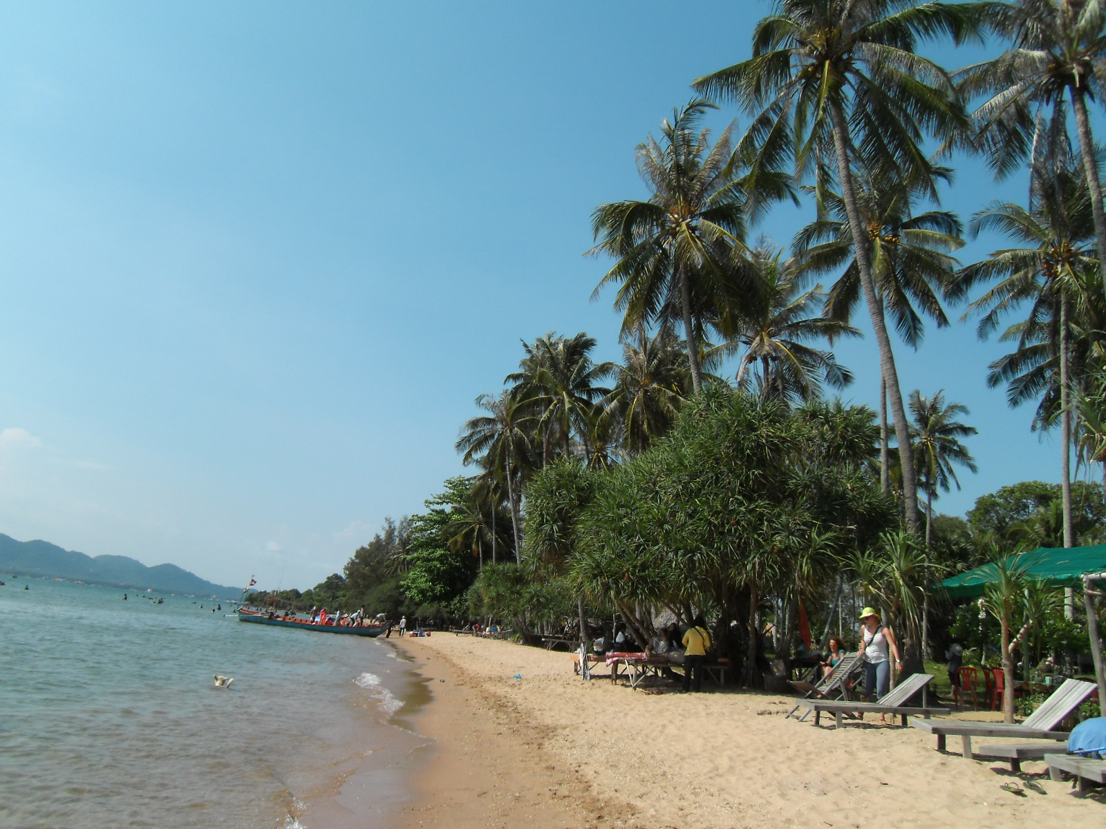 small island in Kampot province, Cambodia